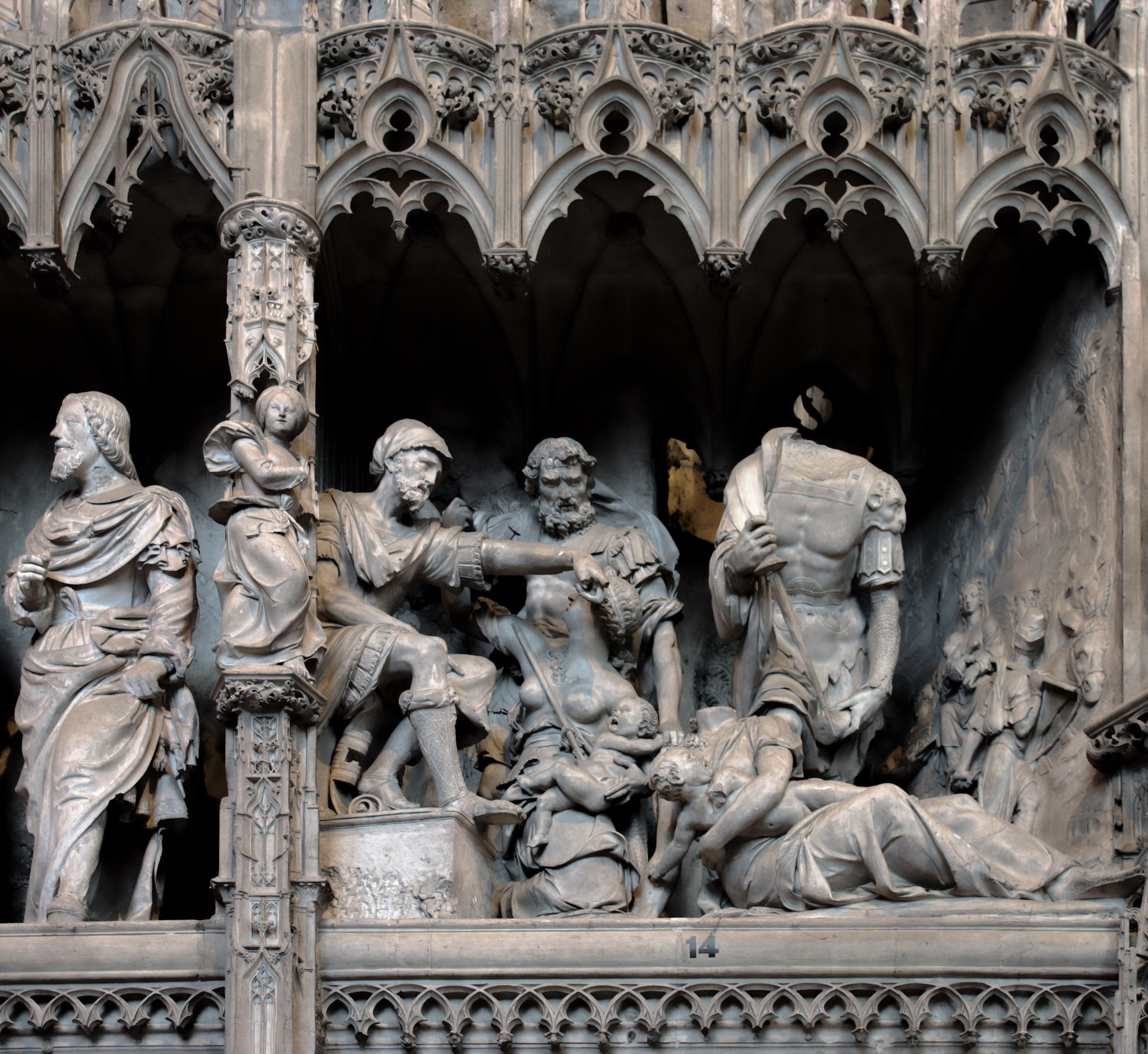 Massacre of the Innocents - sculpture on the southern exterior panels of the choir of Chartres Cathedral.